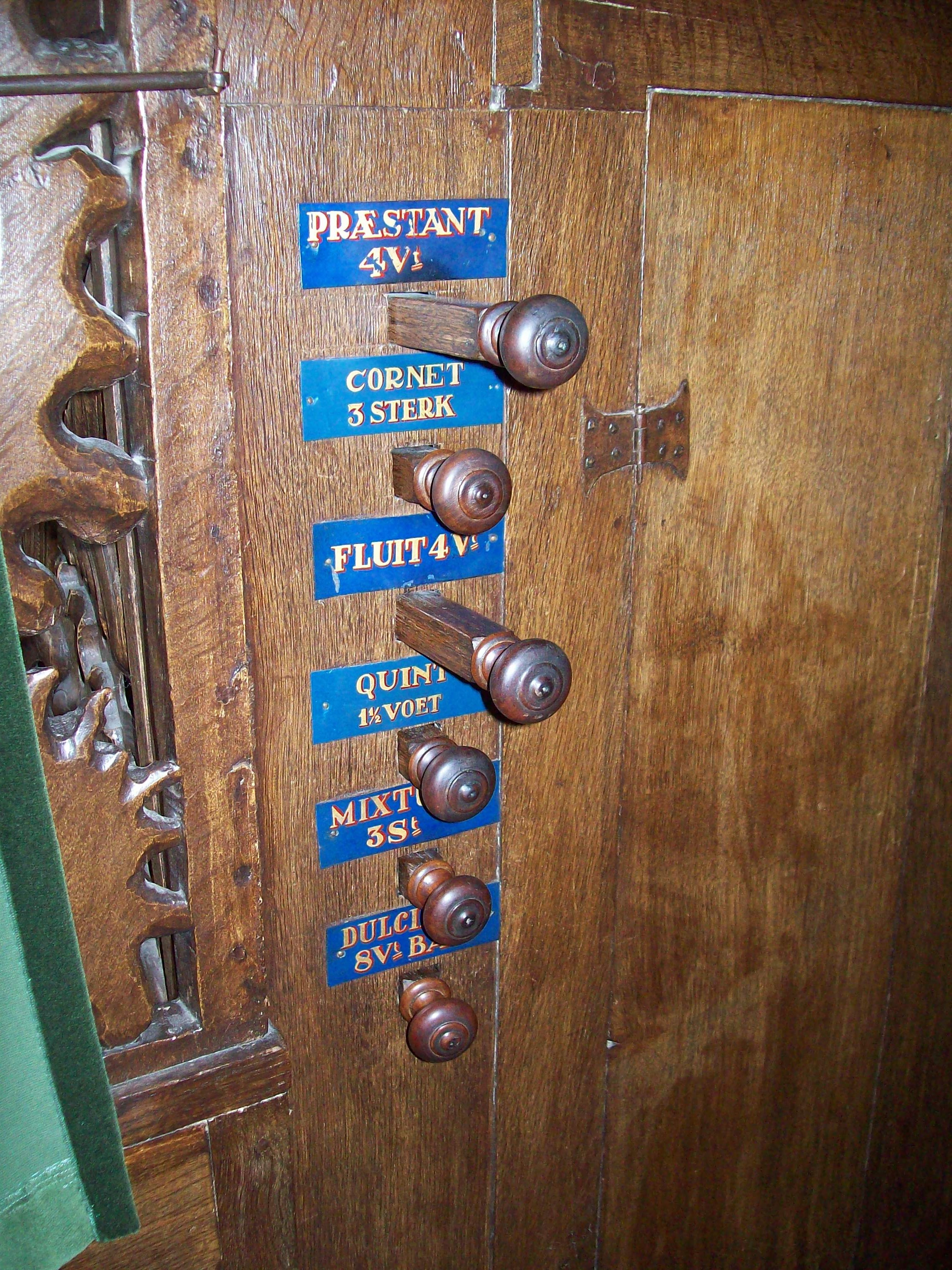 Stops of the organ at the Grote Kerk in Nijkerk